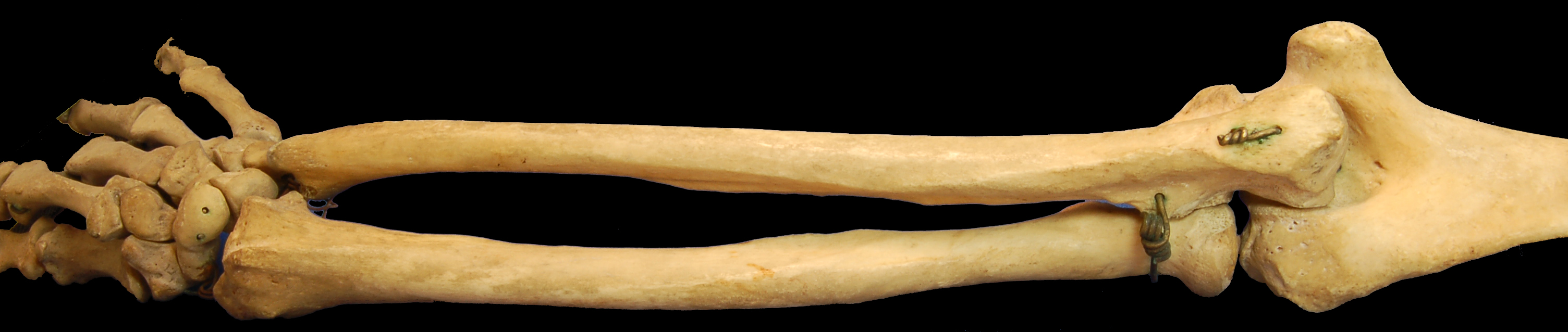 Photograph of right posterior human radius and ulna. Keywords: Human bones, bones, wrist, radius, ulna.